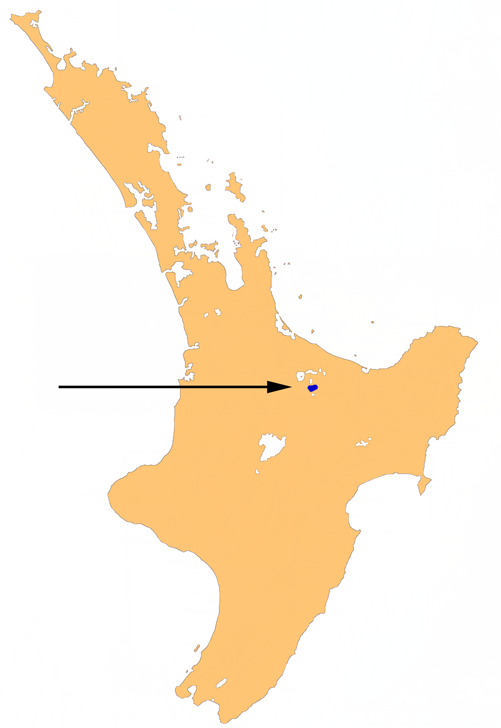 Location map of Lake Tarawera, New Zealand